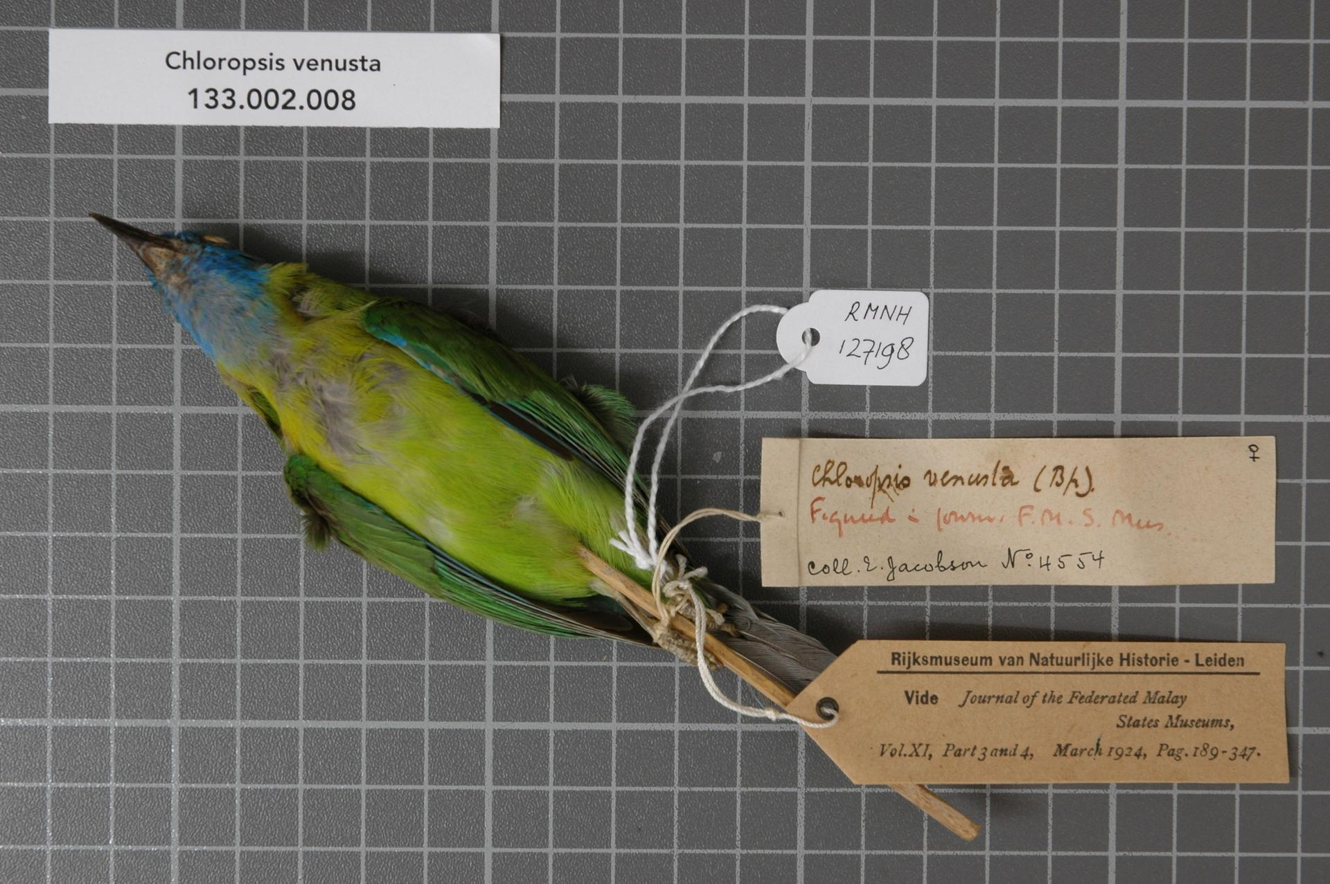 Chloropsis venusta (Bonaparte, 1850)